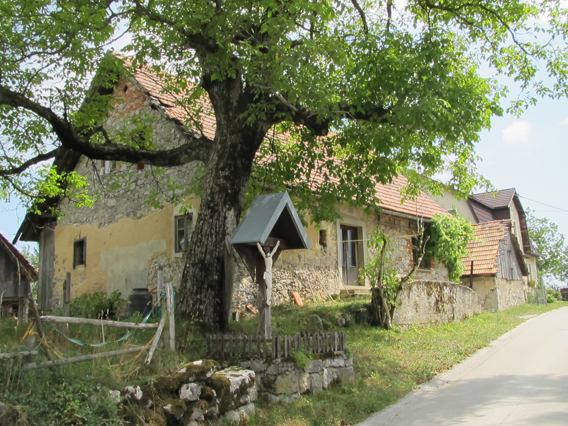 The village of Ajbelj, Municipality of Kostel, Slovenia